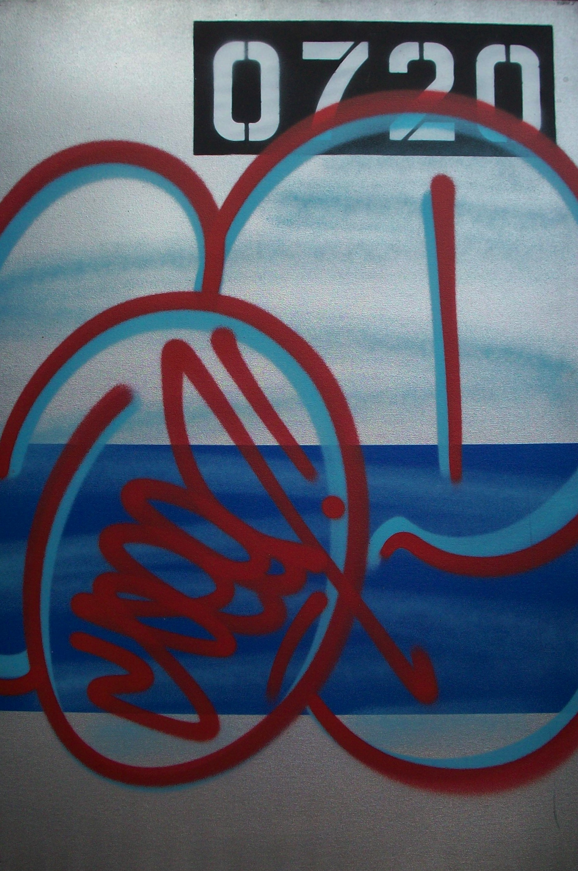 Painting on canvas by SEEN 24x36 inches 2003